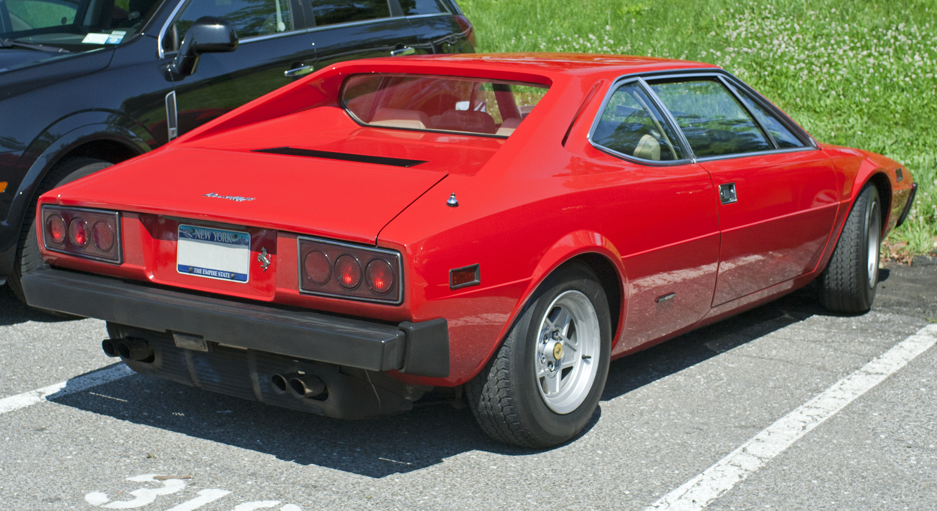 US-spec (Ferrari) Dino 308 GT4. Taken in the parking lot of the 2012 Greenwich Concours d'Elegance